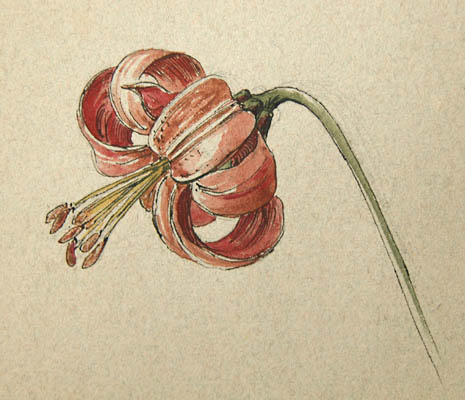 Lilium pomponium drawn by Samuel Birmann (1793 - 1847) for his book: Notizen über Landökonomie